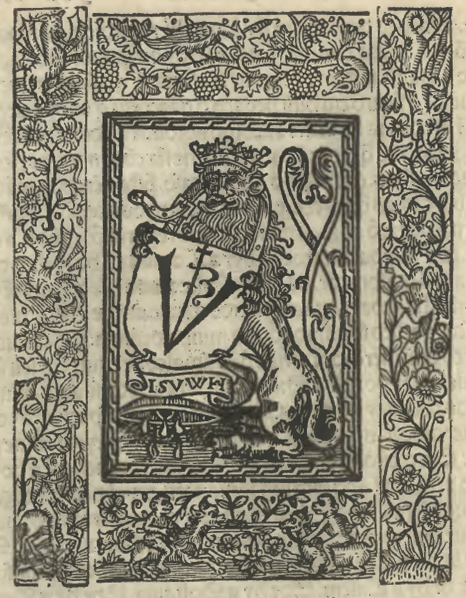 Printer's mark of Valentim Fernandes (c. 1450-1518/9), Portuguese printer of Moravian origin.